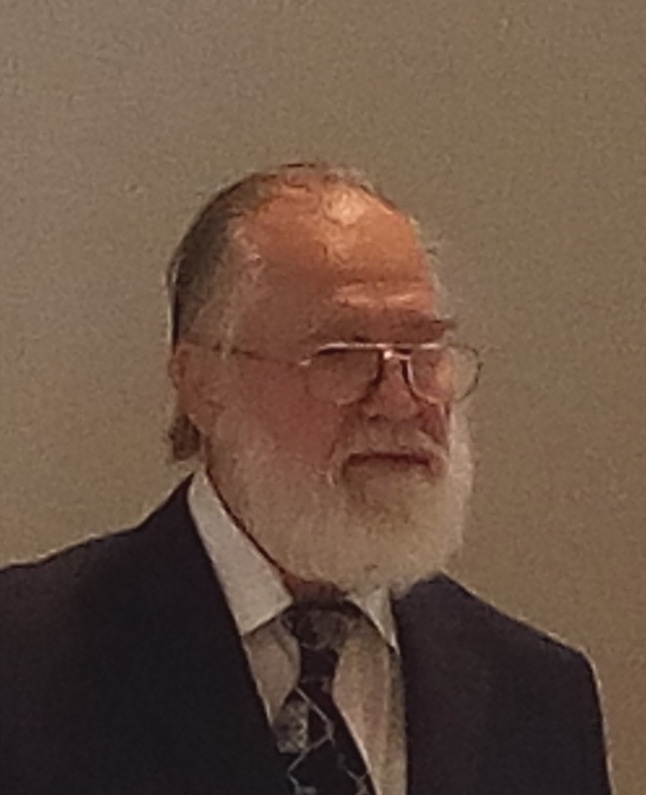 Universität Potsdam, Institut für Mathematik, 19. Oktober 2016; © Klaus Schulze